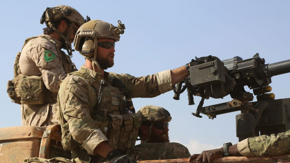 US Army Special Forces soldiers in Raqqa, Syria